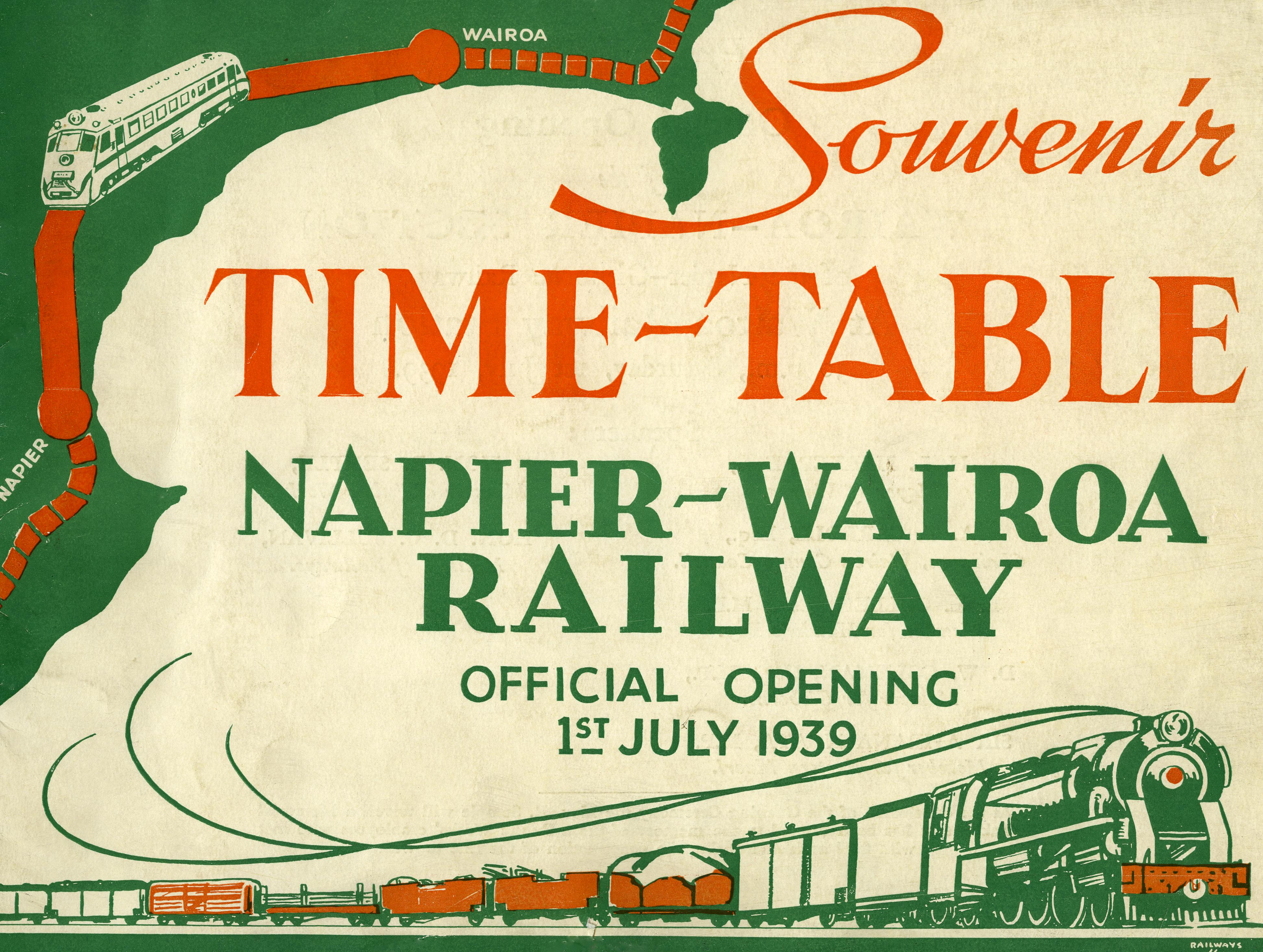 Archives Reference: ABIN W3337 Box 147 Image is of the front cover of a souvenir pamphlet about the official opening of the Napier-Wairoa Railway, 1 July 1939. The front cover is produced by the New Zealand Railways studios, brochure is produced by the New Zealand Railways publicity and advertising branch.